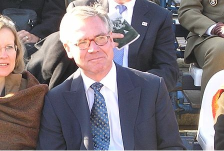 Photo of Eckart Cuntz